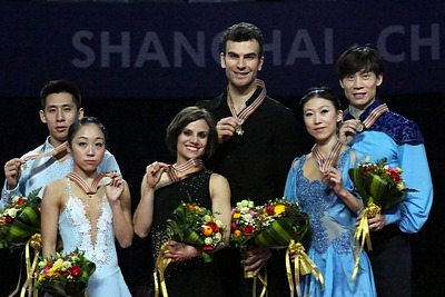 The Pair Skatimg podium at the 2015 World Championships. From left: Sui Wenjing / Han Cong (2nd), Meagan Duhamel / Guilaume Cizeron (1st), Pang Qing / Tong Jian (3rd).